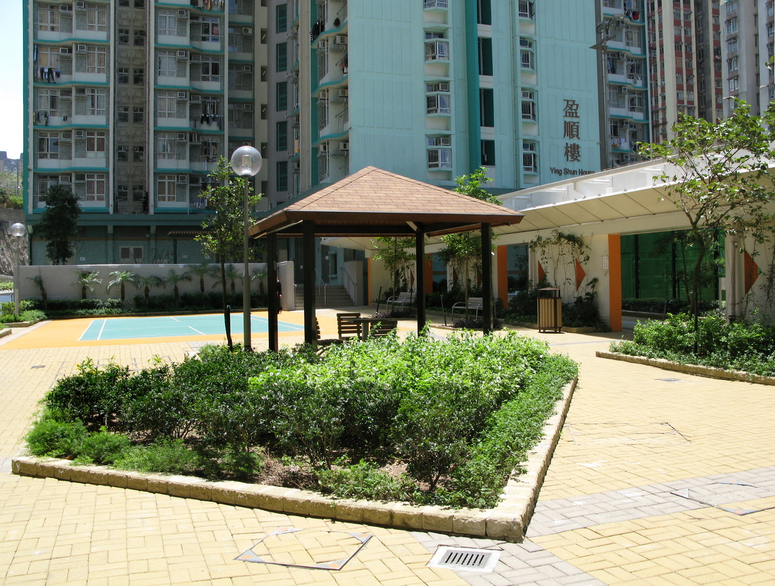 Choi Ying Estate 彩盈邨